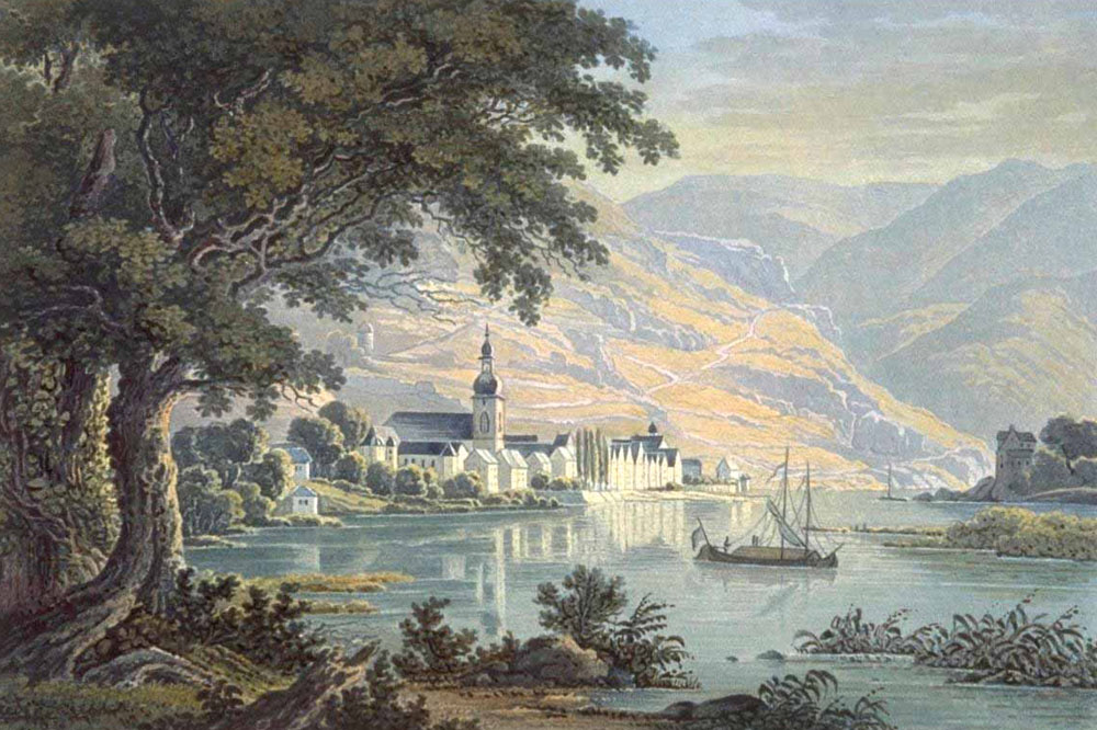 The town Zell on the Moselle River in Germany. Aquatint engraving by Karl Bodmer 1841.